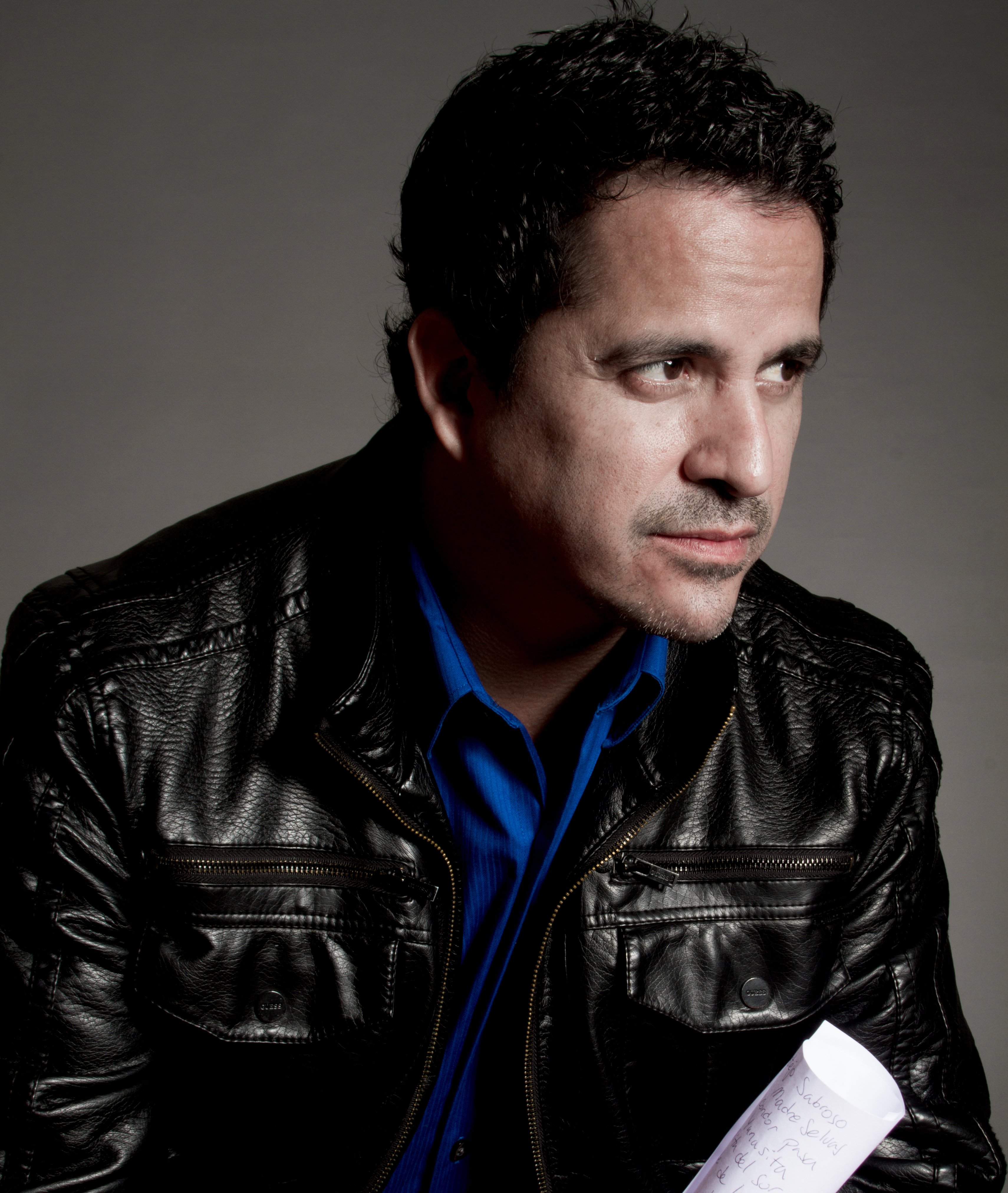 Picture of Jaime Cuadra